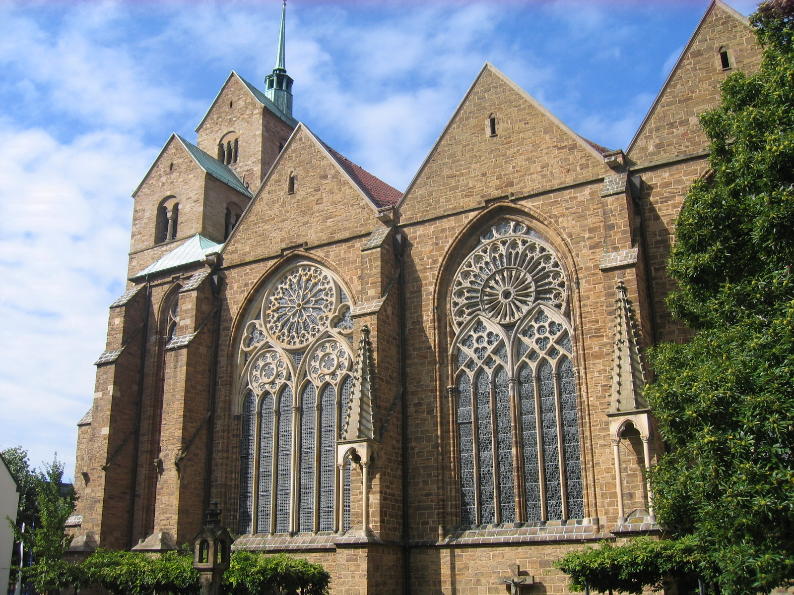 Cathedral in Minden, District of Minden-Lübbecke, North Rhine-Westphalia, Germany.